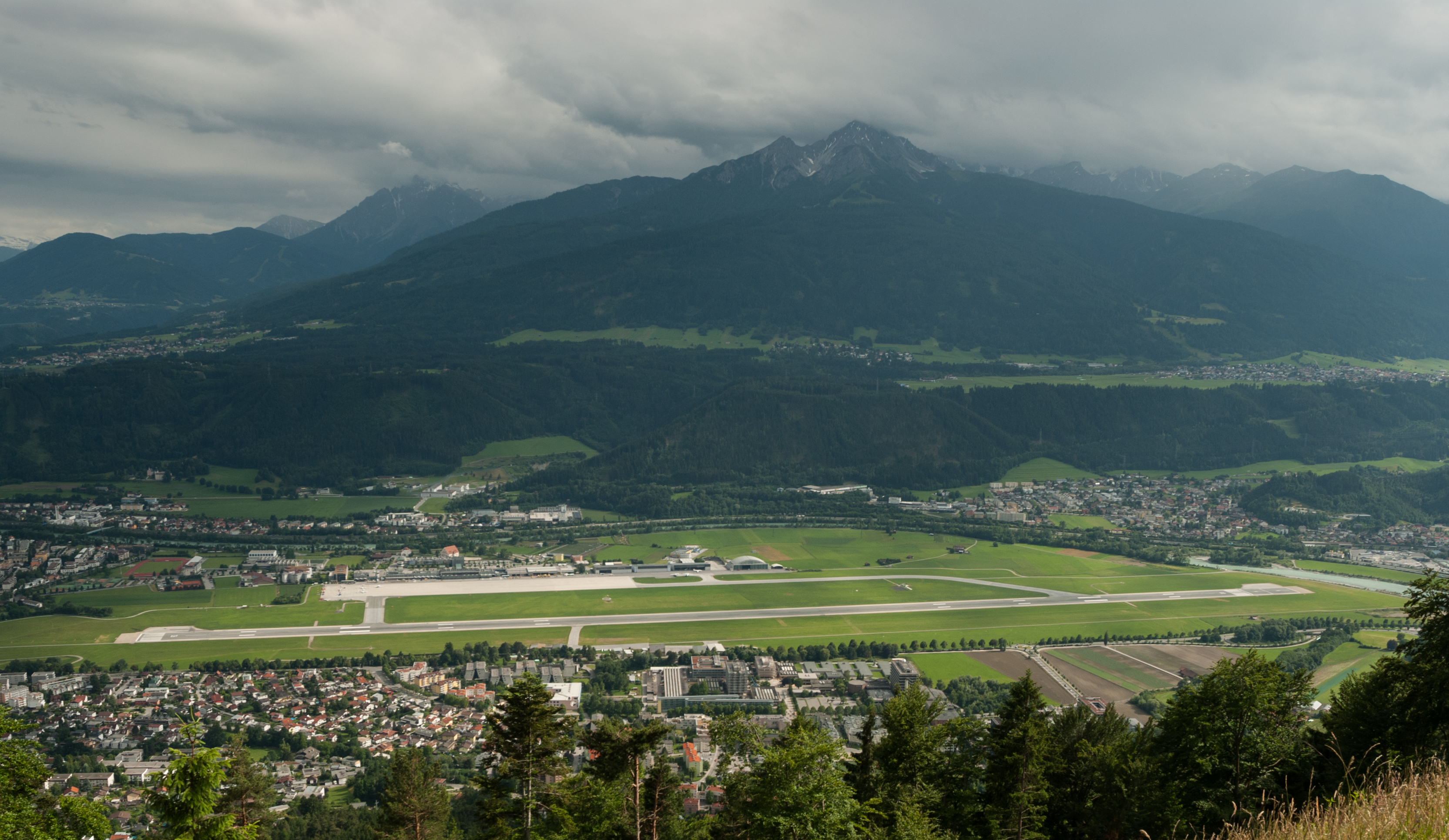 View from Rauschbrunnen to Innsbruck airport with Nockspitze (Saile) in the background